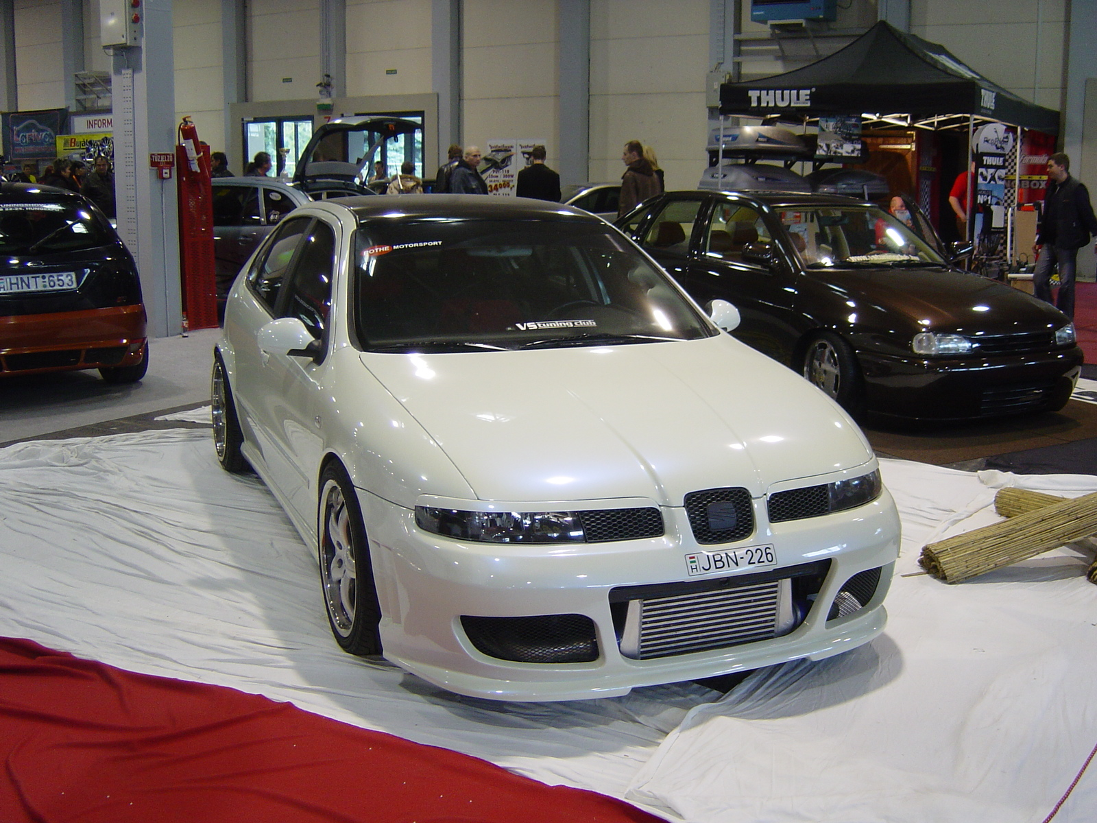 Seat Leon